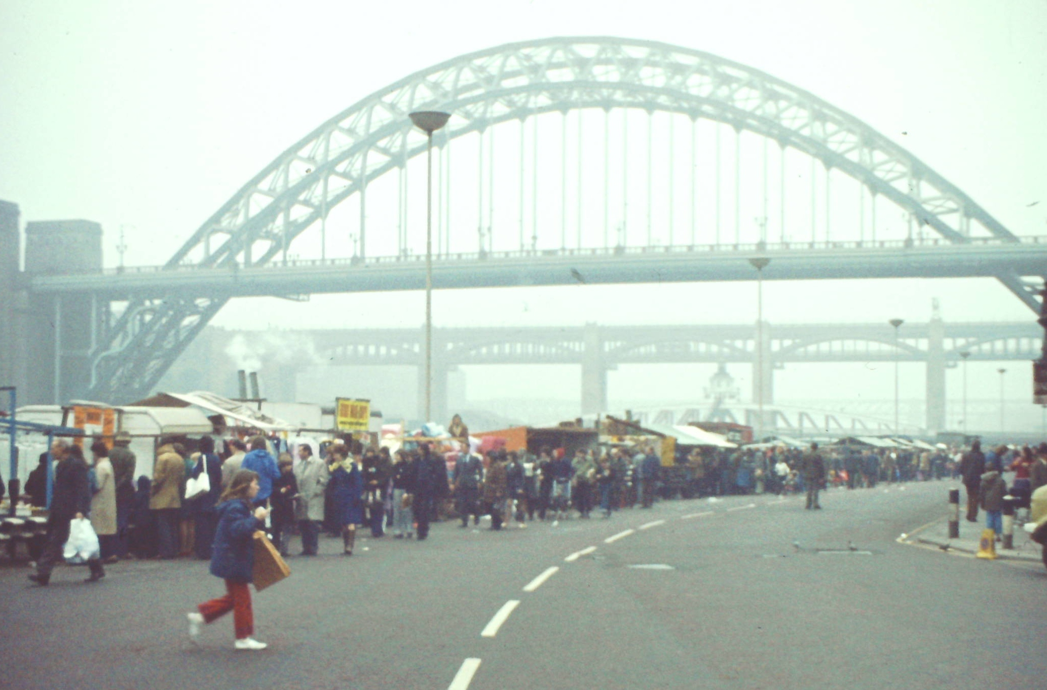 Sunday Market, Newcastle